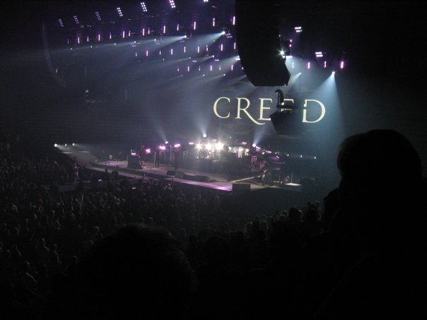 This photo was taken by me at Creed's concert in the E Center (now known as the Maverik Center) in West Valley City, Utah on October 2, 2009.